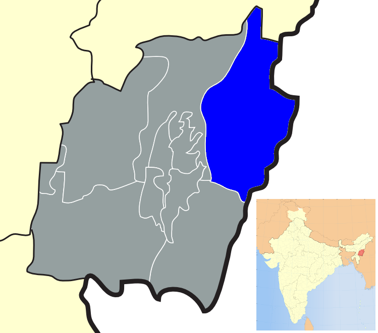 This is a retouched picture, which means that it has been digitally altered from its original version. The original can be viewed here: India Manipur locator map.svg.